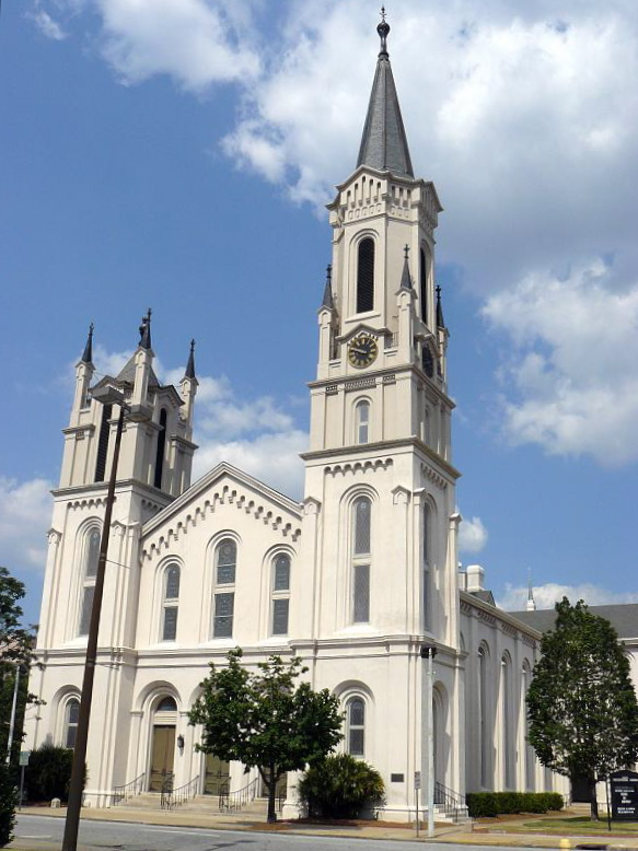 First Presbyterian Church, 1101 First Avenue, Columbus, Georgia (built 1862).